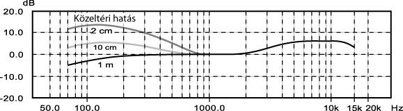 Near field effect